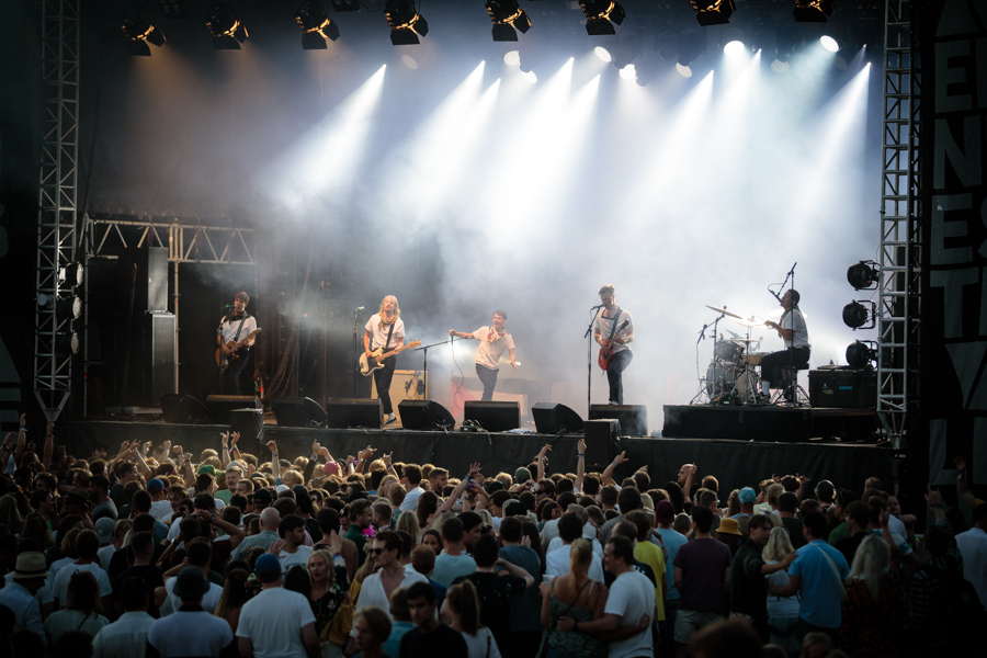 Honningbarna at Stavernfestivalen. The concert took place on 13. July 2018 in Stavern. Lineup: Edvard Valberg (vocal and cello) Lars Emmelthun (bass guitar) Christoffer Trædal (guitar) Nils Jørgen Nilsen (drums) Unidentified (guitar)